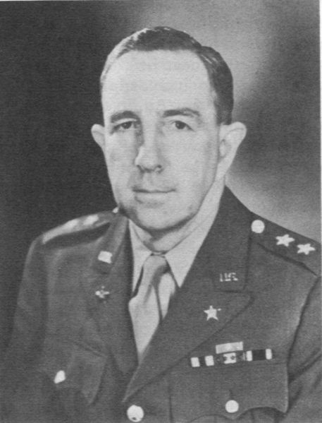 Major General Ray Barker